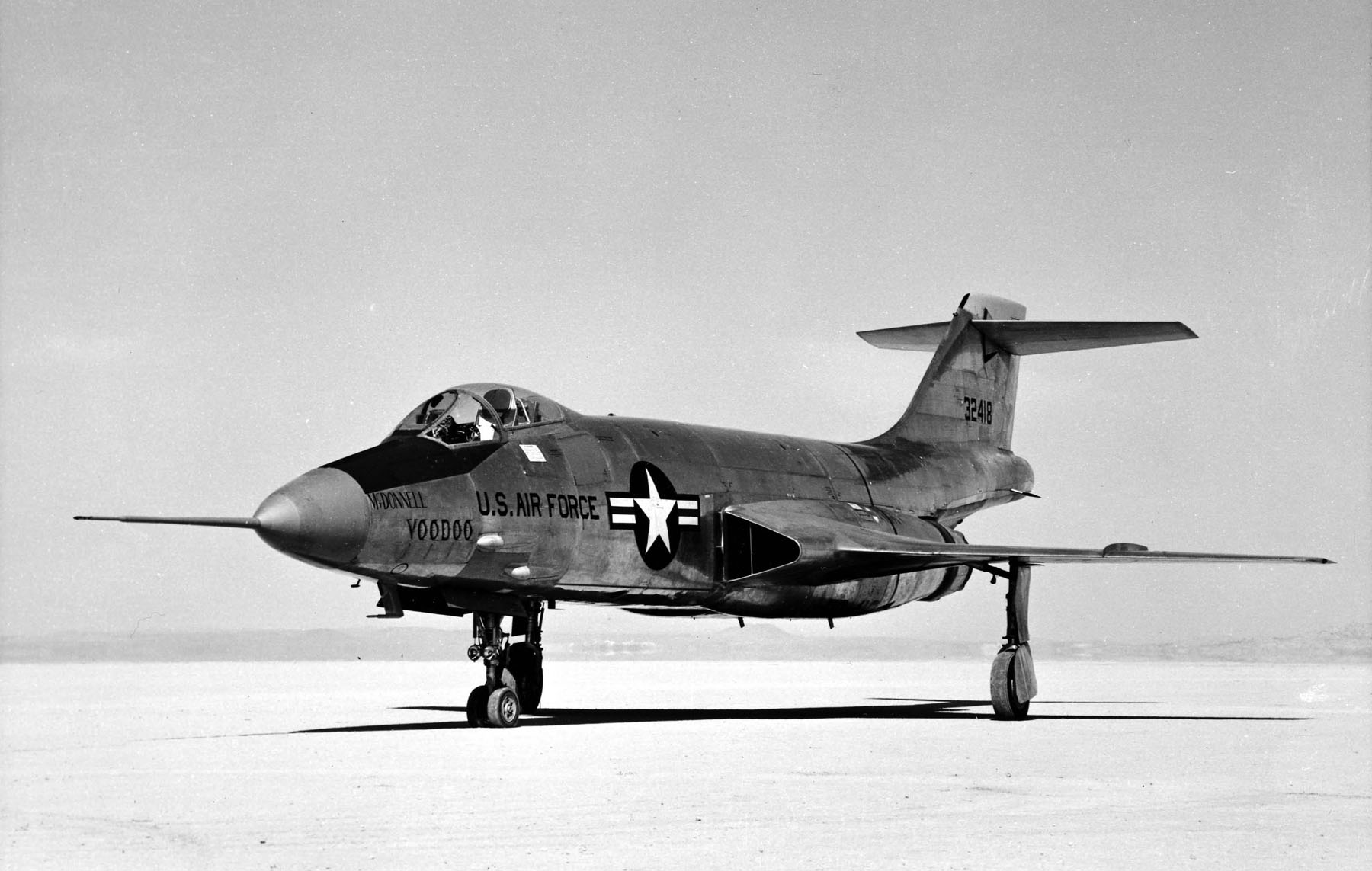 The first McDonnell F-101A-1-MC Voodoo (53-2418) on the lakebed at Edwards shortly after delivery. The aircraft is currently on display at the Pueblo Weisbrod Aircraft Museum.